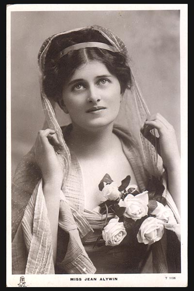 This postcard photo shows Jean Aylwin in the musical comedy Havana, 1908.